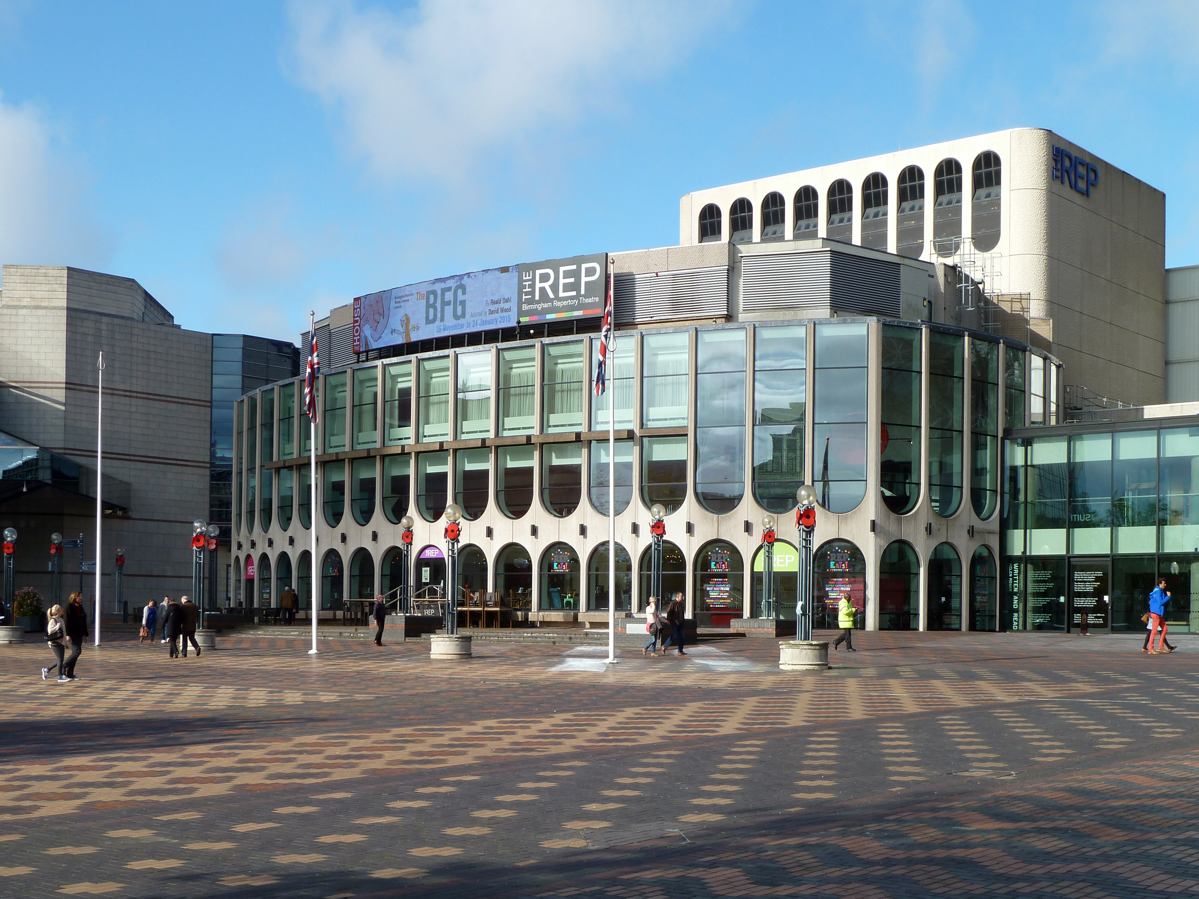 Birmingham Rep